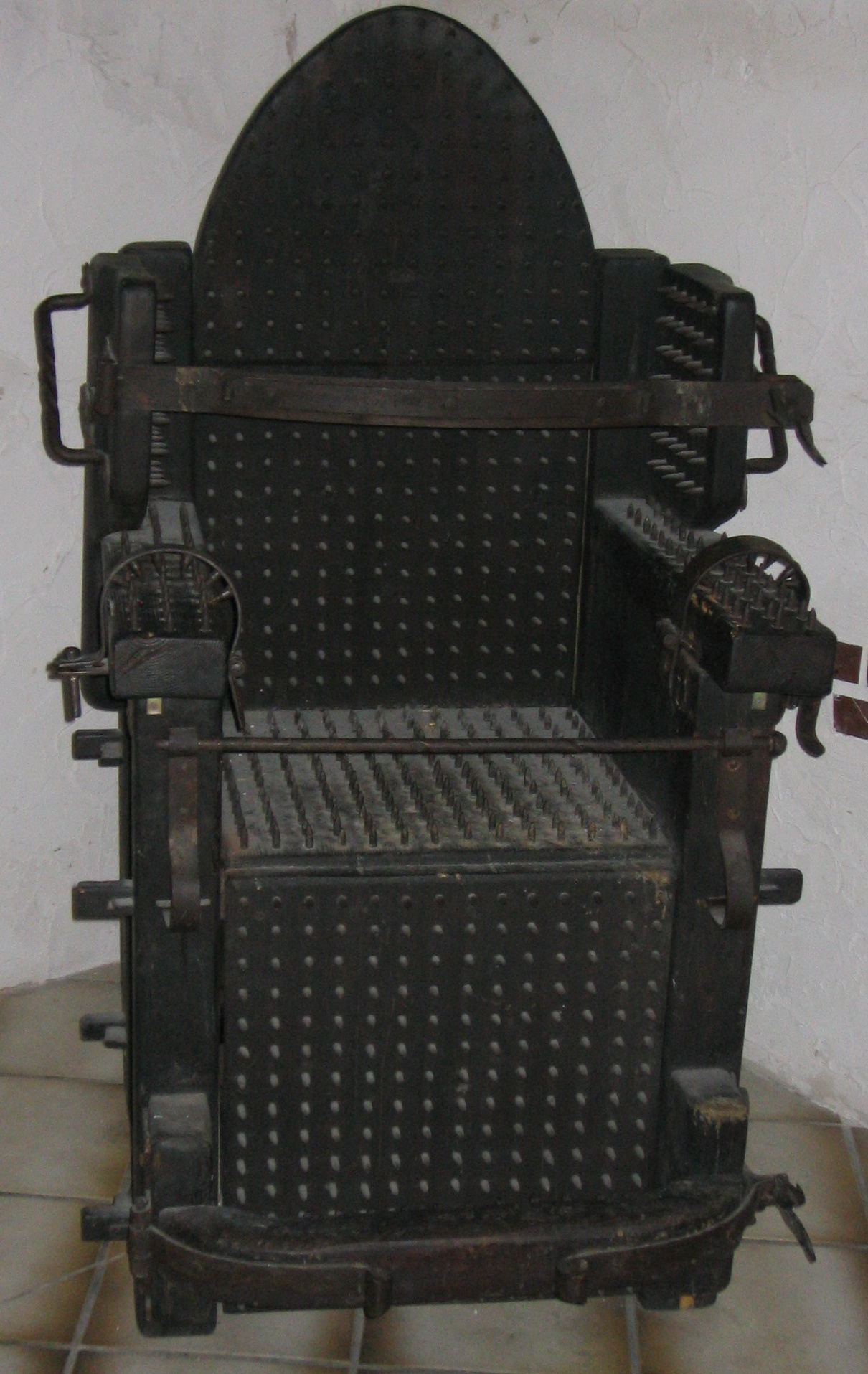 "chair" at the torture museum in Freiburg im Breisgau